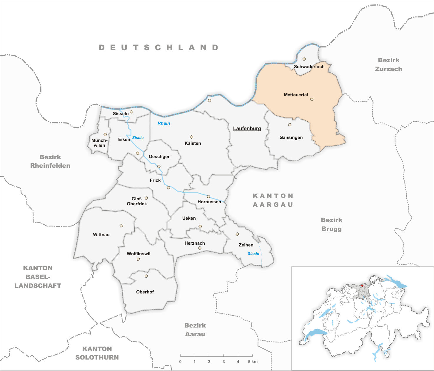 Municipality Mettauertal